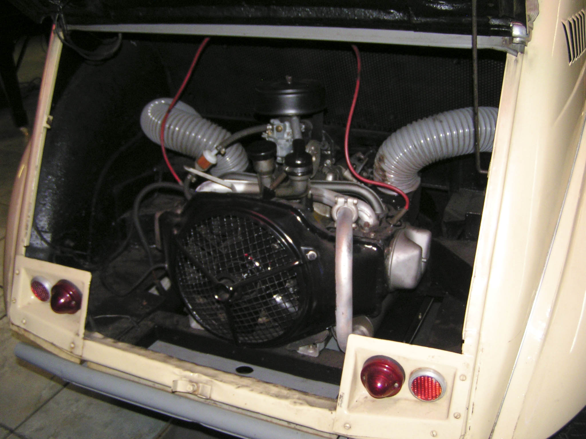 Rear engine of a Citroen Sahara.Citroen Sahara